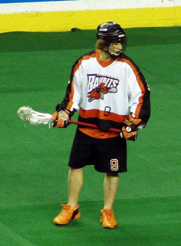 Mark Steenhuis of the Buffalo Bandits at the Pengrowth Saddledome, April 9, 2006